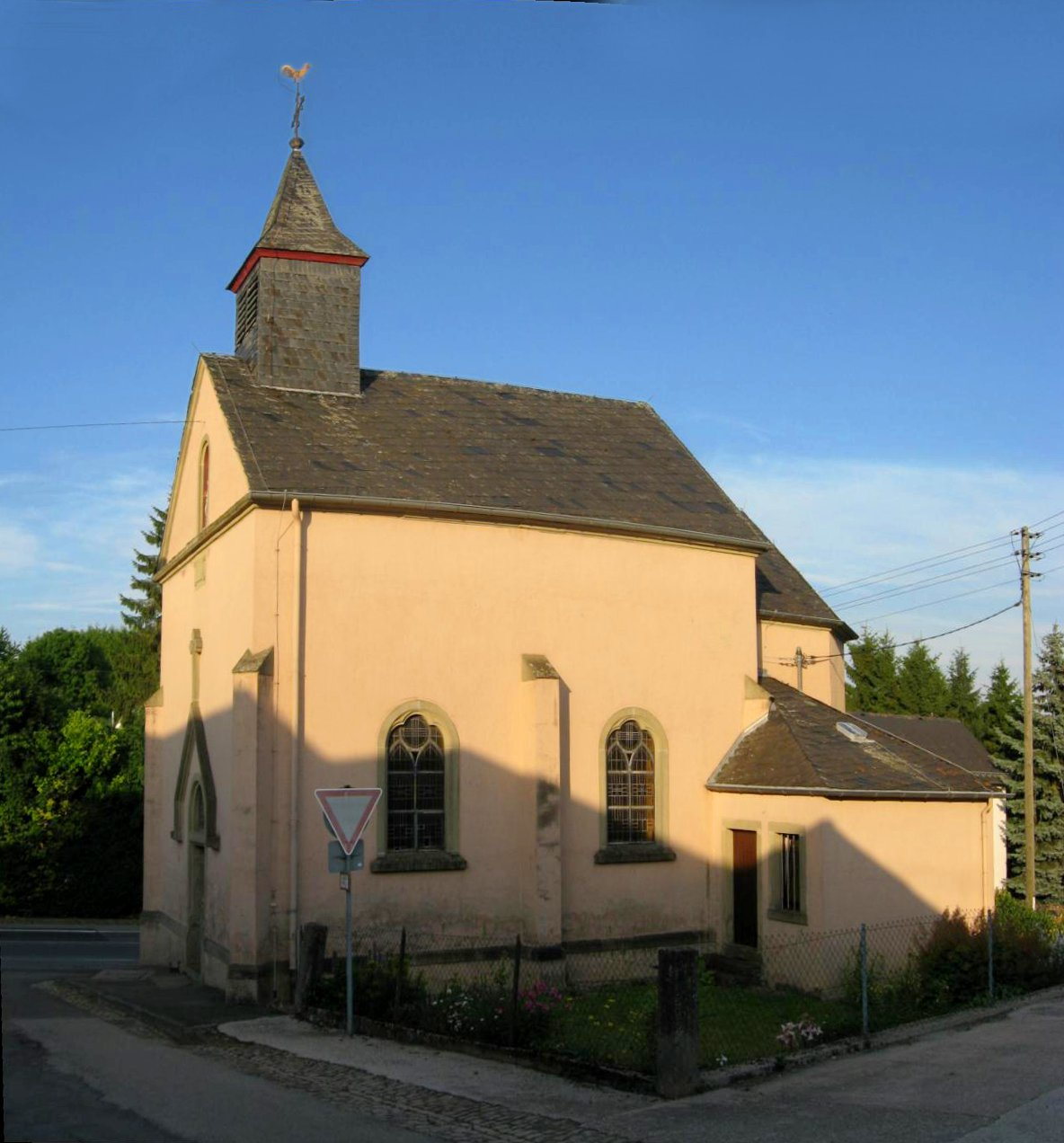 Church in Hohensonne near Aach